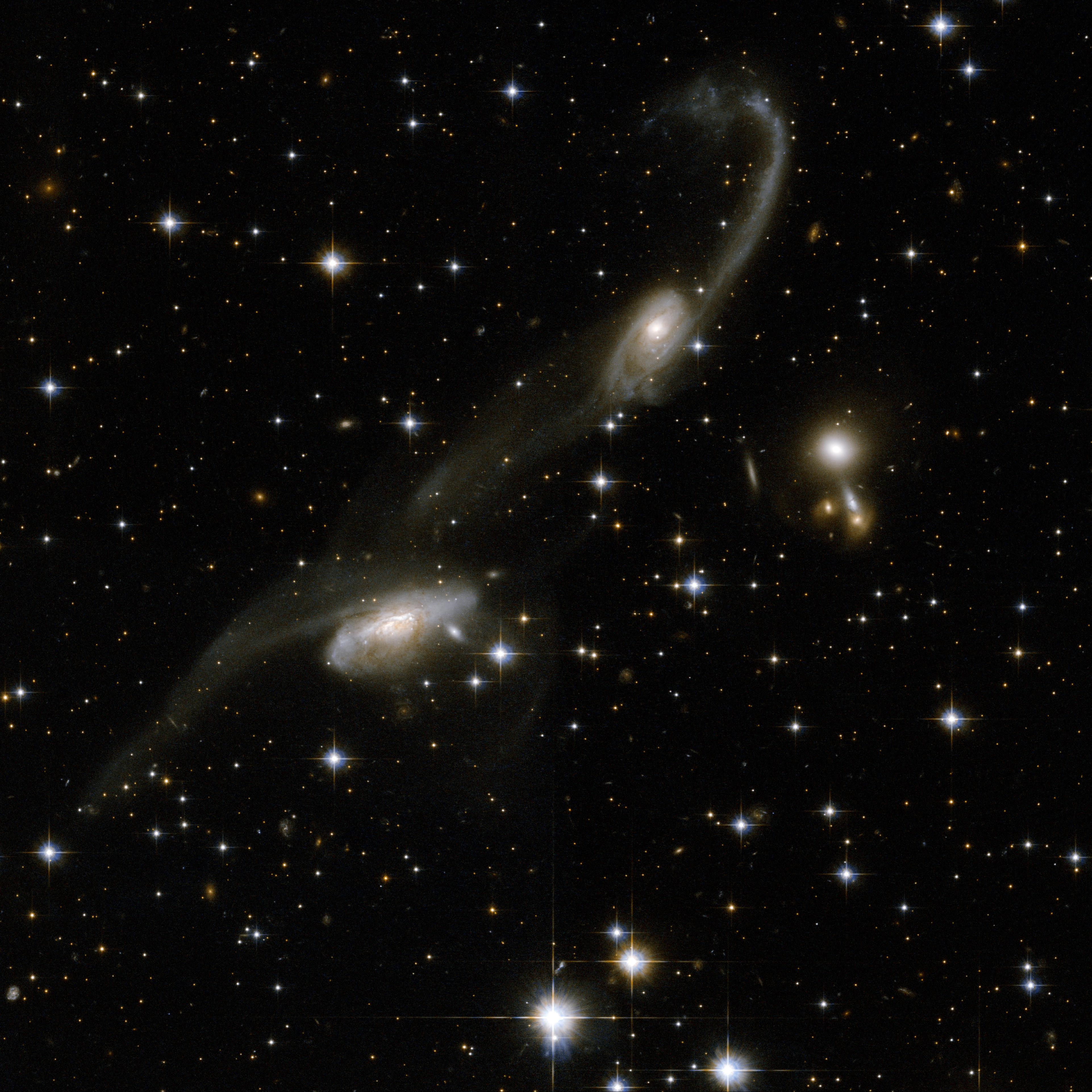 The galaxies of this beautiful interacting pair bear some resemblance to musical notes on a stave. Long tidal tails sweep out from the two galaxies: gas and stars were stripped out and torn away from the outer regions of the galaxies. The presence of these tails is the unique signature of an interaction. ESO 69-6 is located in the constellation of Triangulum Australe, the Southern Triangle, about 650 million light-years away from Earth. This image is part of a large collection of 59 images of merging galaxies taken by the Hubble Space Telescope and released on the occasion of its 18th anniversary on 24th April 2008. About the objectObject nameESO 69-6, ESO 069-IG006, AM 1633-682Object descriptionInteracting GalaxiesPosition (J2000)16 38 12.69 -68 26 25.4ConstellationTriangulum AustraleDistance600 million light-years (200 million parsecs)About the dataData descriptionThe Hubble image was created using HST data from proposal 10592: A. Evans (University of Virginia, Charlottesville/NRAO/Stony Brook University)InstrumentACS/WFCExposure date(s)April 8, 2002Exposure time39 minutesFiltersF435W (B) and F814W (I)